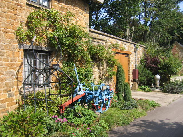 Bloxham Village Museum. A couple of the displays and the flower beds in front of the museum. According to the label the blue machinery is a potato harvester from around 1940.